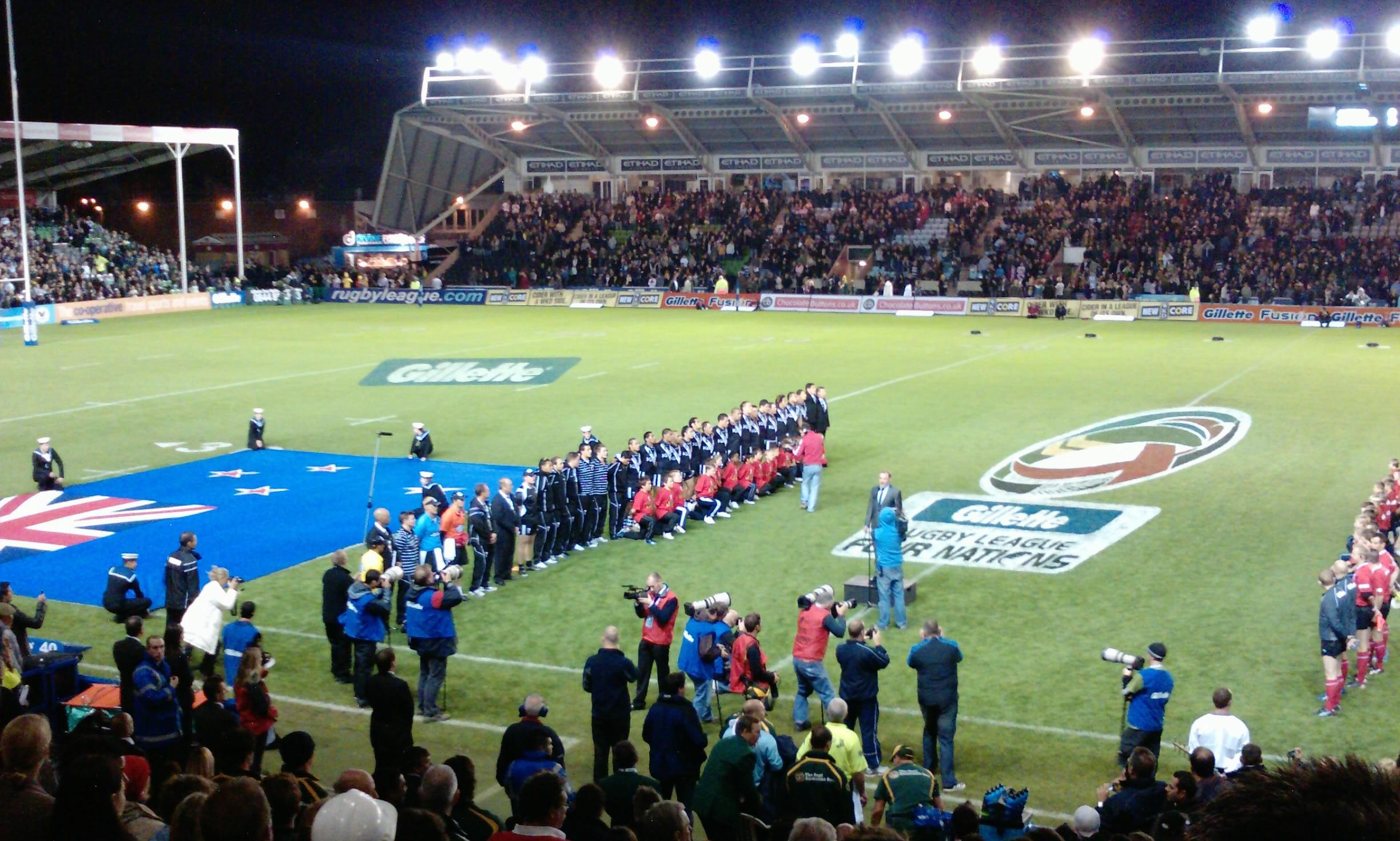 National Anthems at the Twickenham Stoop at the Australia vs New Zealand Four Nations match.